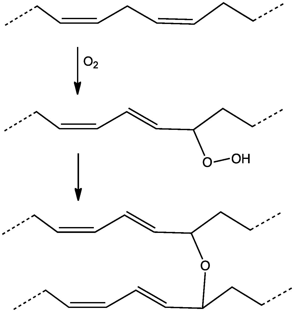 tweaked drawing of diene coupling in drying oil